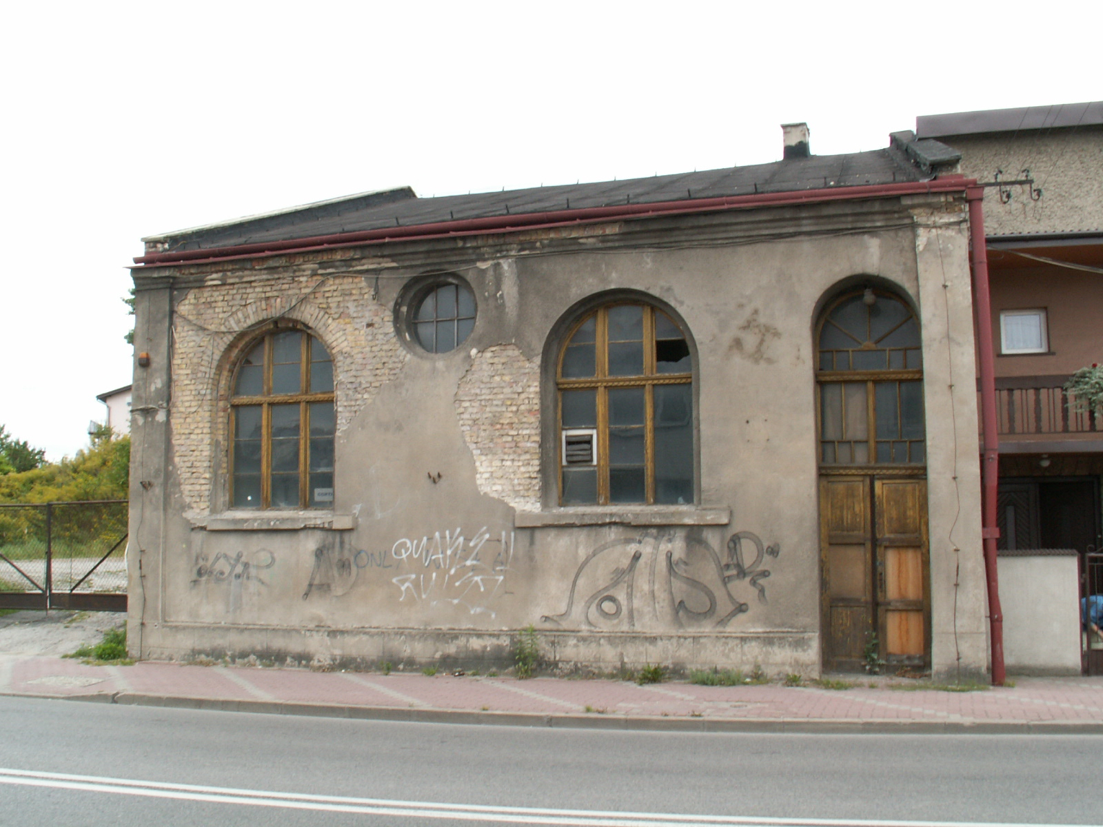 Merchants Synagogue in Trzebinia